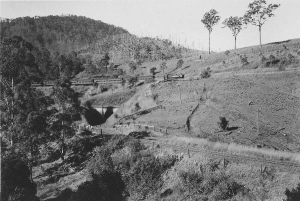 Up Brisbane Limited on Border Spiral above #1 Spiral Tunnel